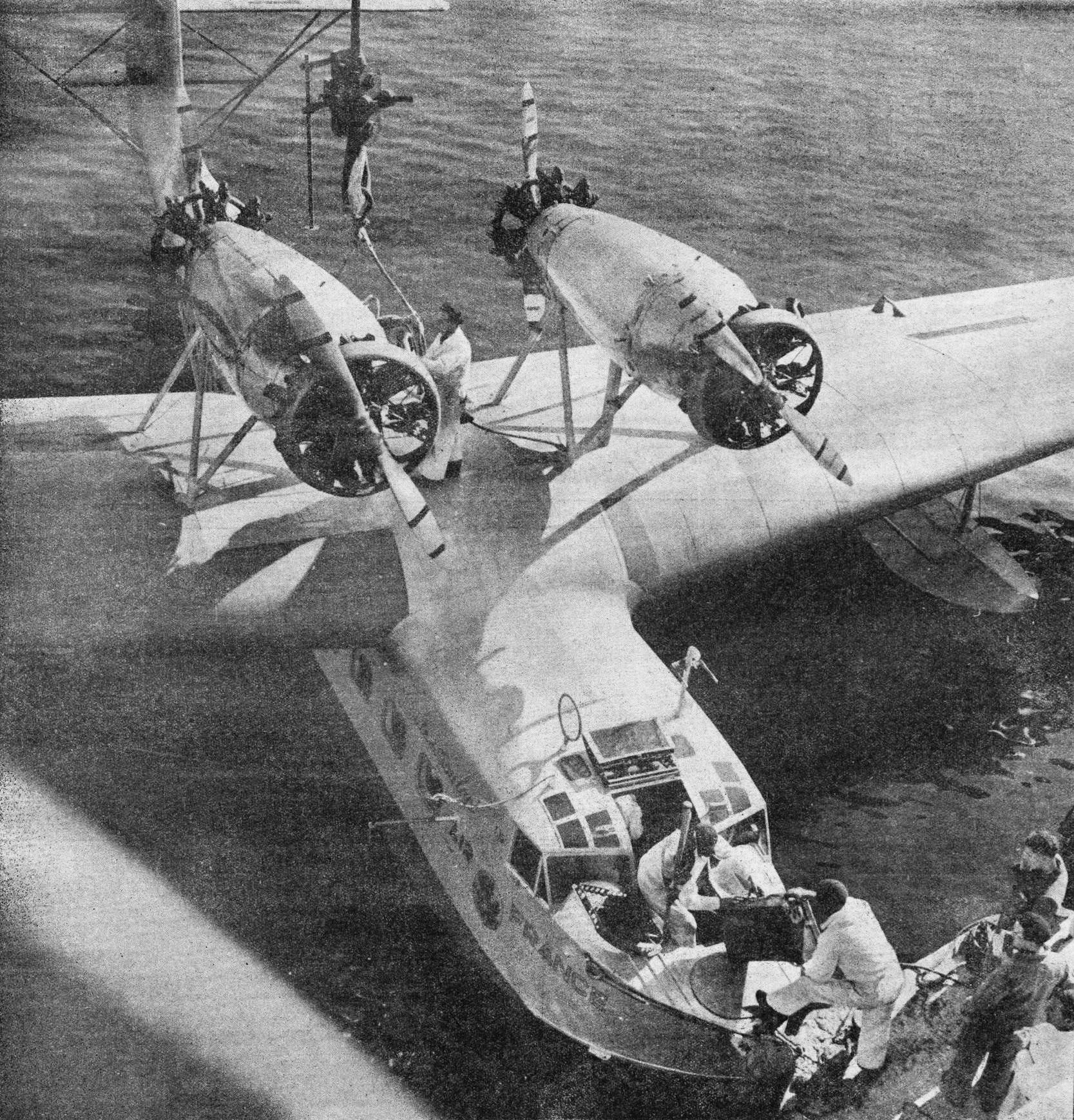 An Air France Lioré et Olivier LeO H-242/1 flying boat at MARIGNANE. GRAND PORT AÉRIEN, Marseille